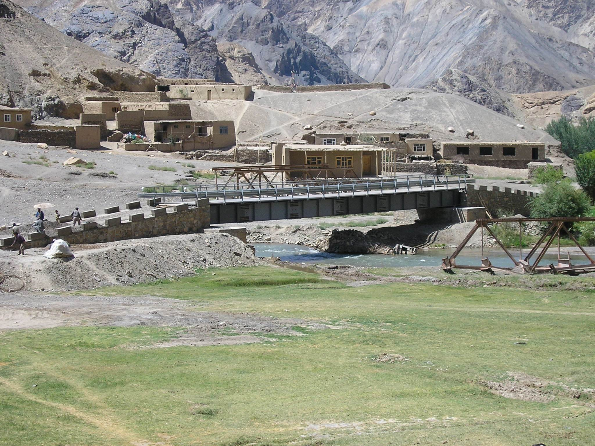 Bridge Construction in Ghandak, Central Highlands, Afghanistan. Project implemented by the United Nations Office of Project Services (UNOPS). This bridge is at the 158rd km of Ghandak Road. The road is the link between Bamyan City and the village of Kahmard - the economic trade route for the communities that rely on agricultural produce.